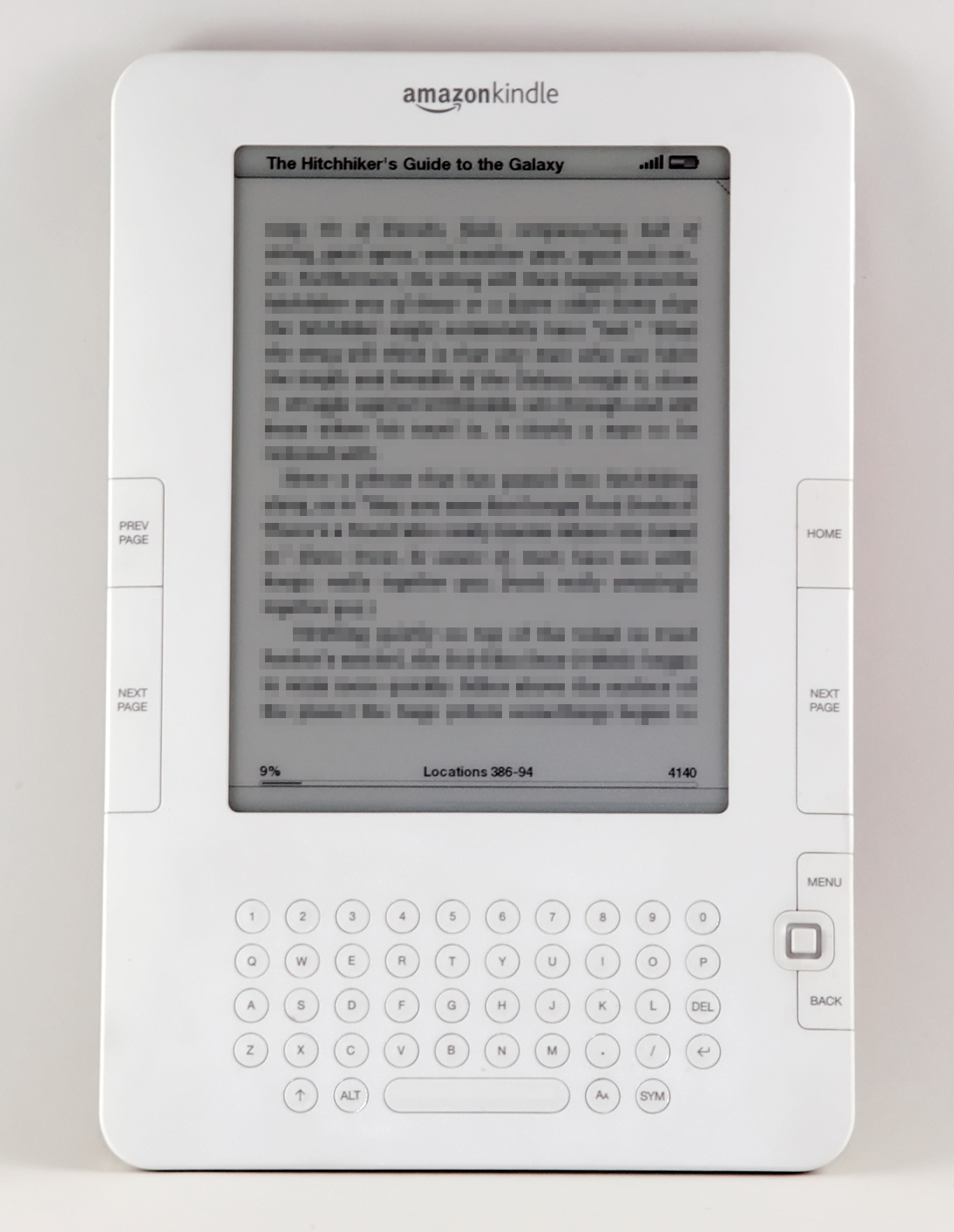 The Amazon Kindle 2